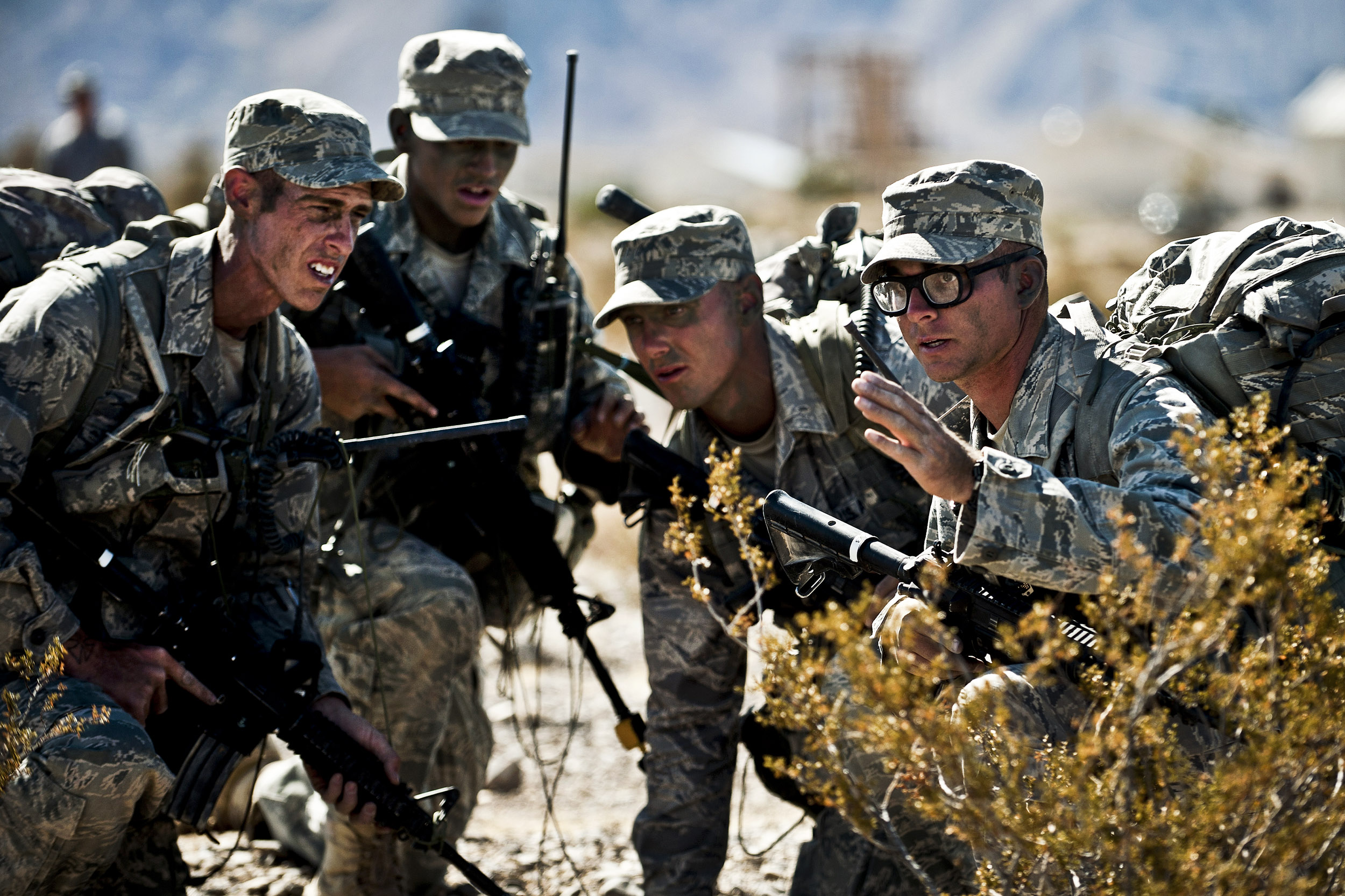 Air Force airmen training as squad leaders discuss tactics before an ambush training mission at the Nevada Test and Training Range on Nellis Air Force Base, Nev., Oct. 21, 2011. U.S. Air Force photo by Airman 1st Class George Goslin